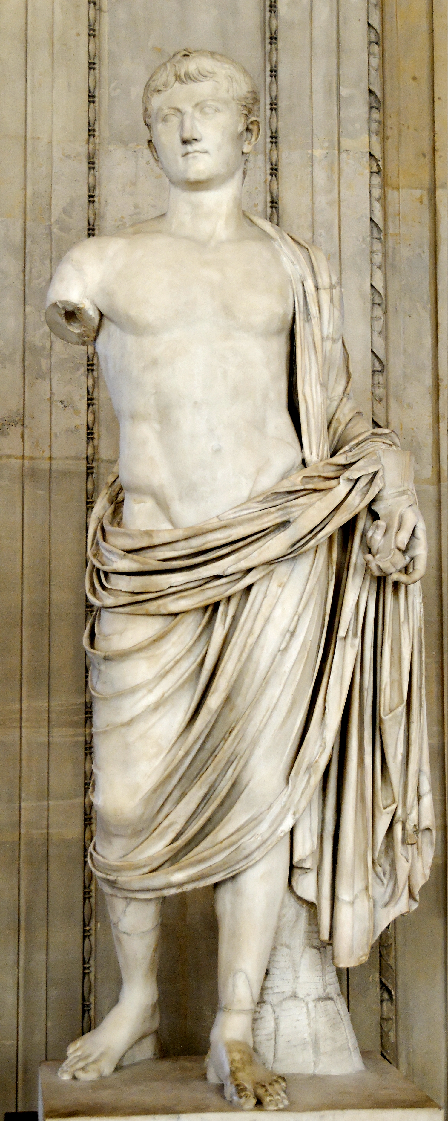 Portrait of Germanicus , brother of the Emperor Claudius. From Gabii, Italy.